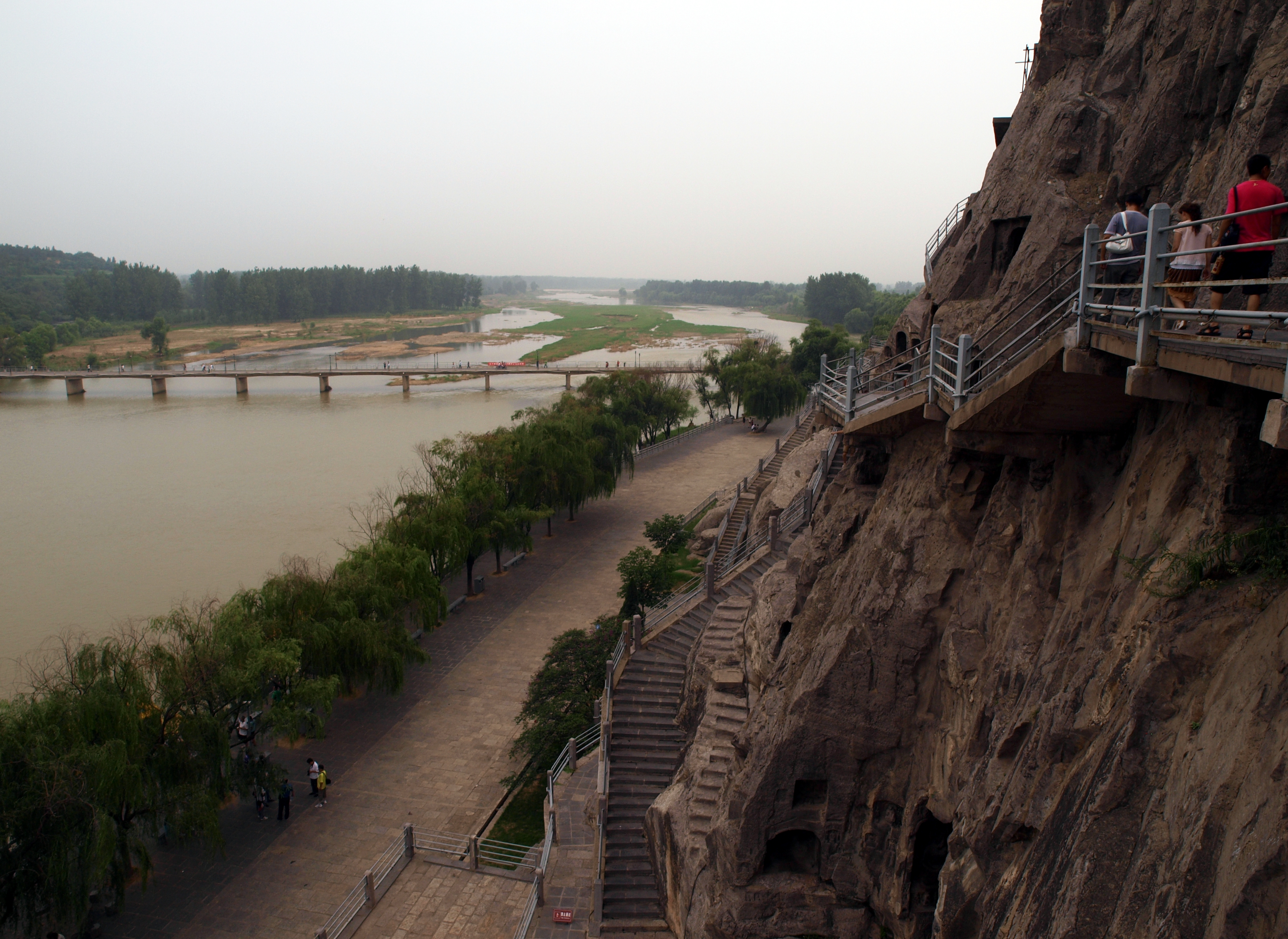 Longmen caves along the yihe, one of the side rivers of the Yellow River. Henan, China